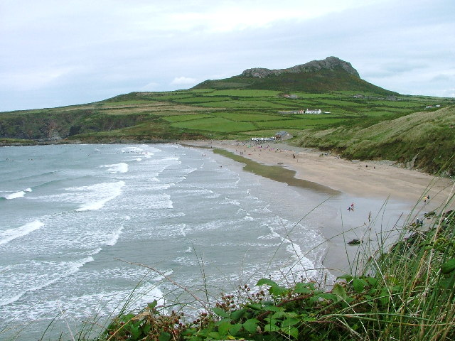 Whitesands Bay